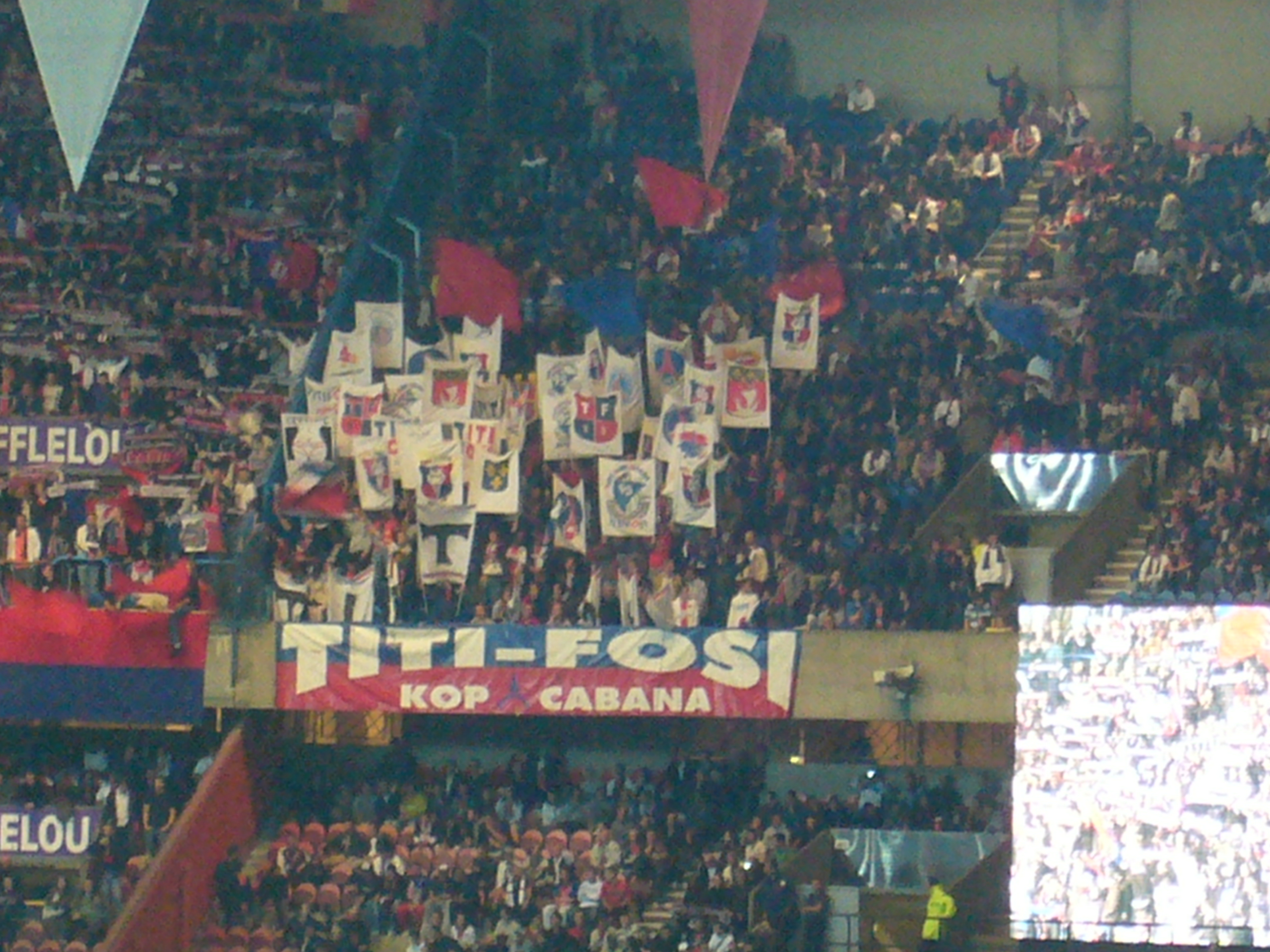 Titi Fosi (tribune A) Paris SG 0-1 FC Grenoble, Parc des Princes, 27 Sep 2008, Paris.